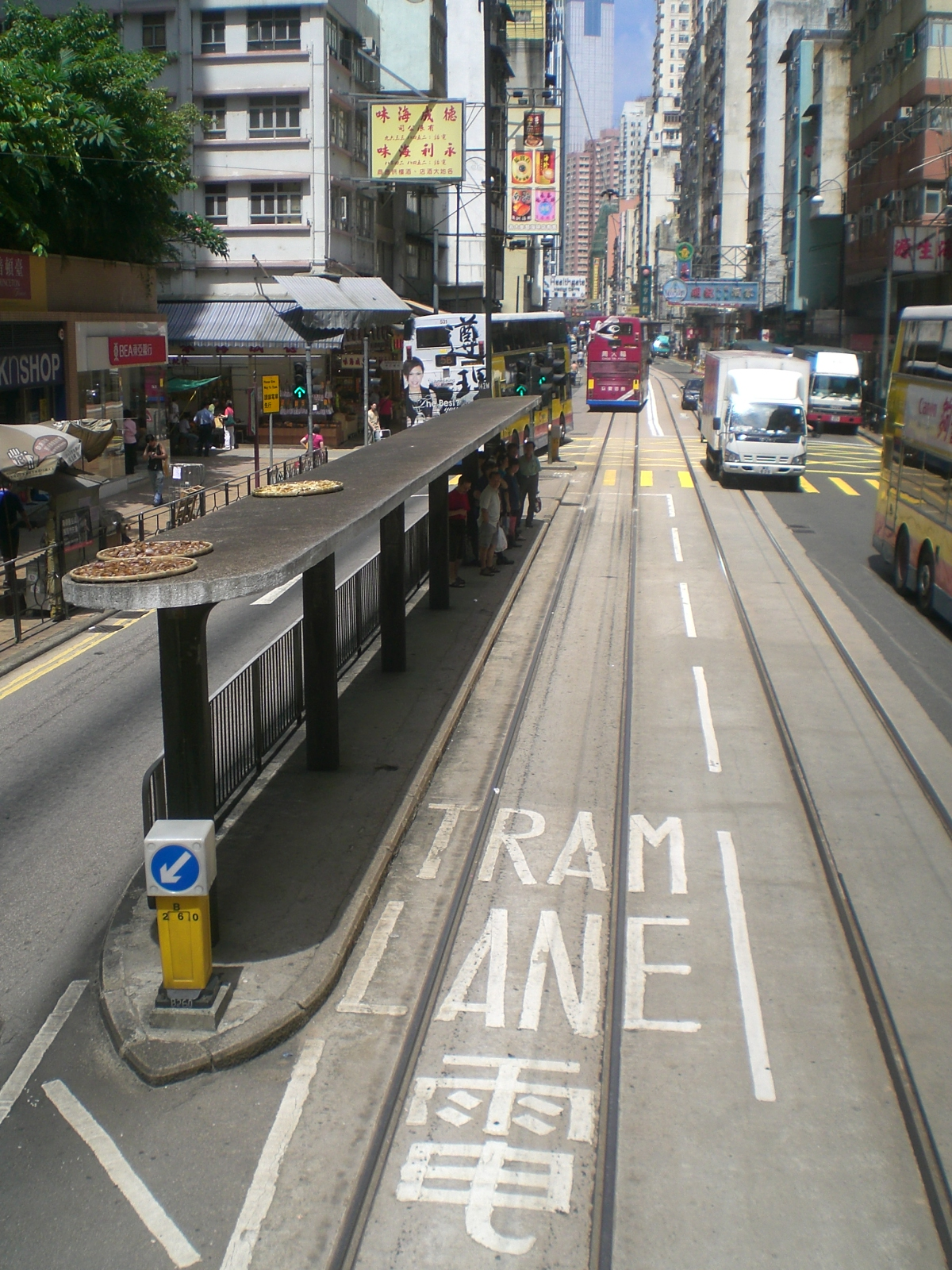 德輔道西電車路, 海味街電車站